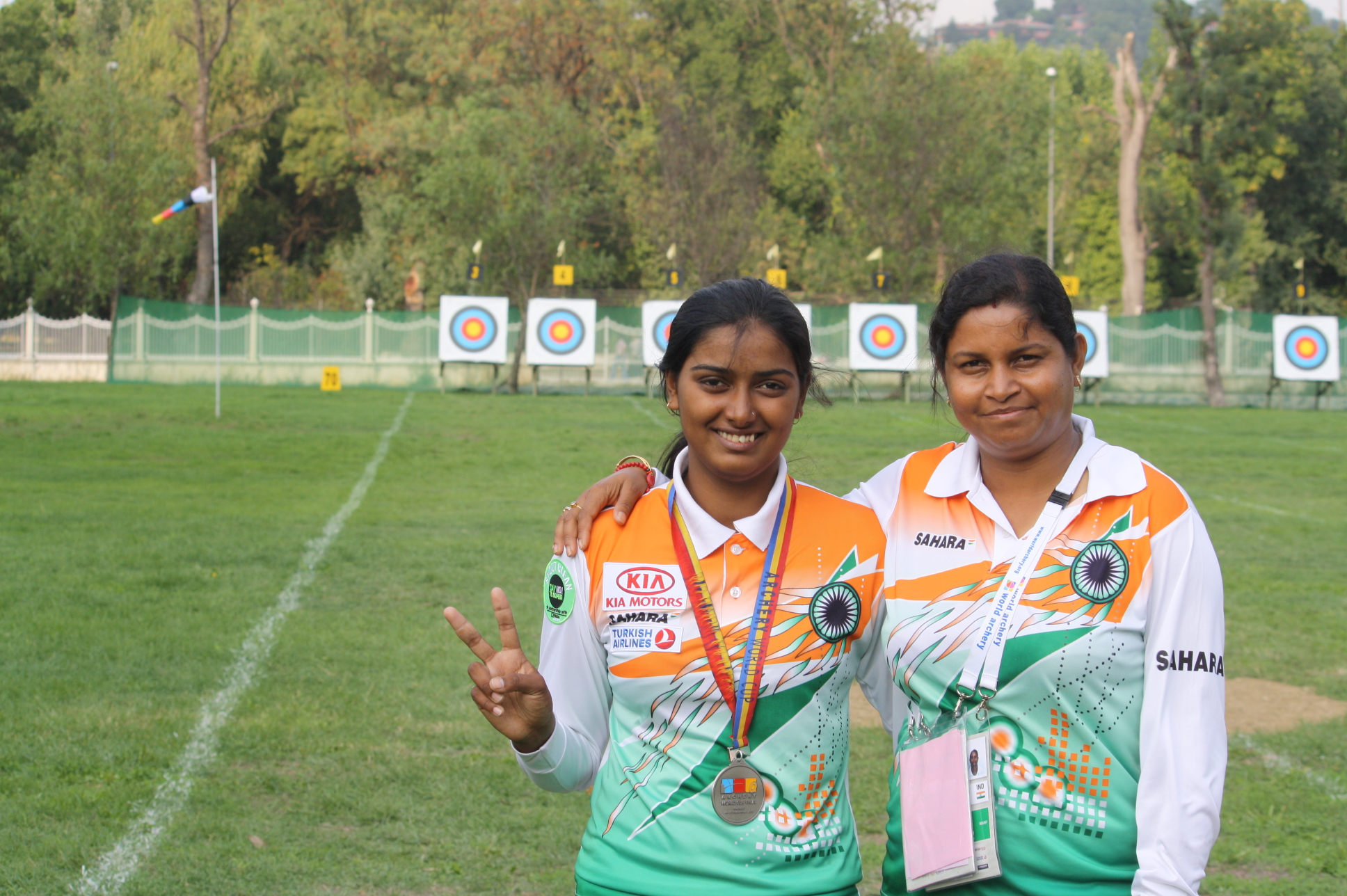 purnima mahato with deepika kumari at world cup final held in istanbul ,deepika won silver